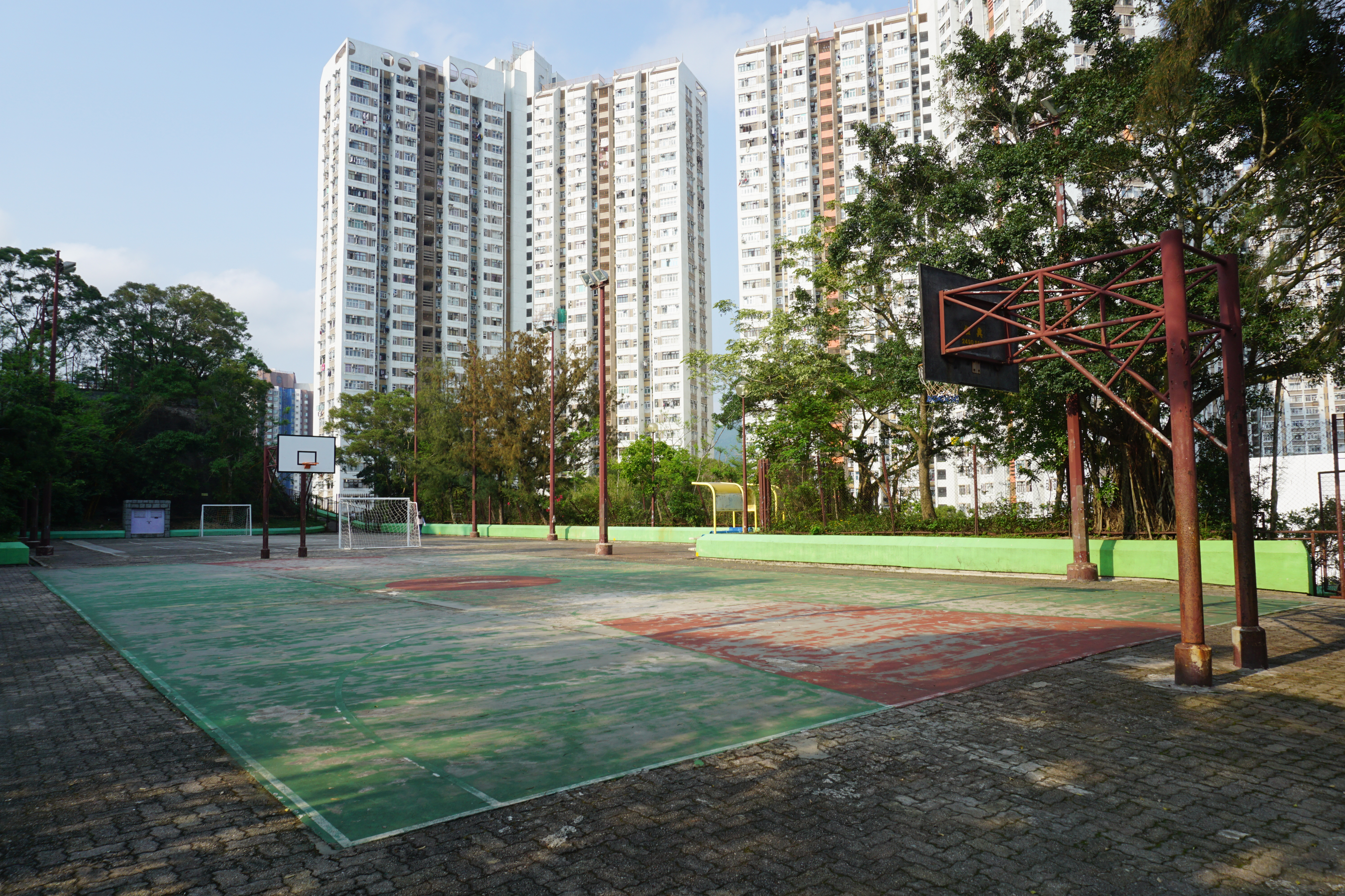 Lei Tung Estate in Ap Lei Chau, Hong Kong.